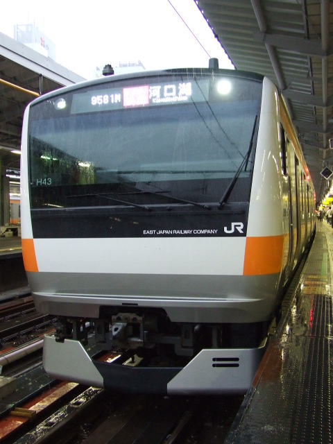 Holiday-Rapid〝KAWAGUCHIKO〟of Model E233, East Japan Railway, Japan